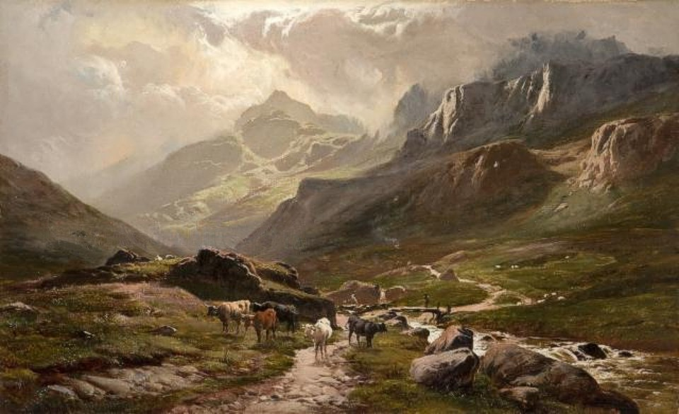 "Grizedale, Westmorland", Oil on canvas, 12 ½ x 19 ½ inches